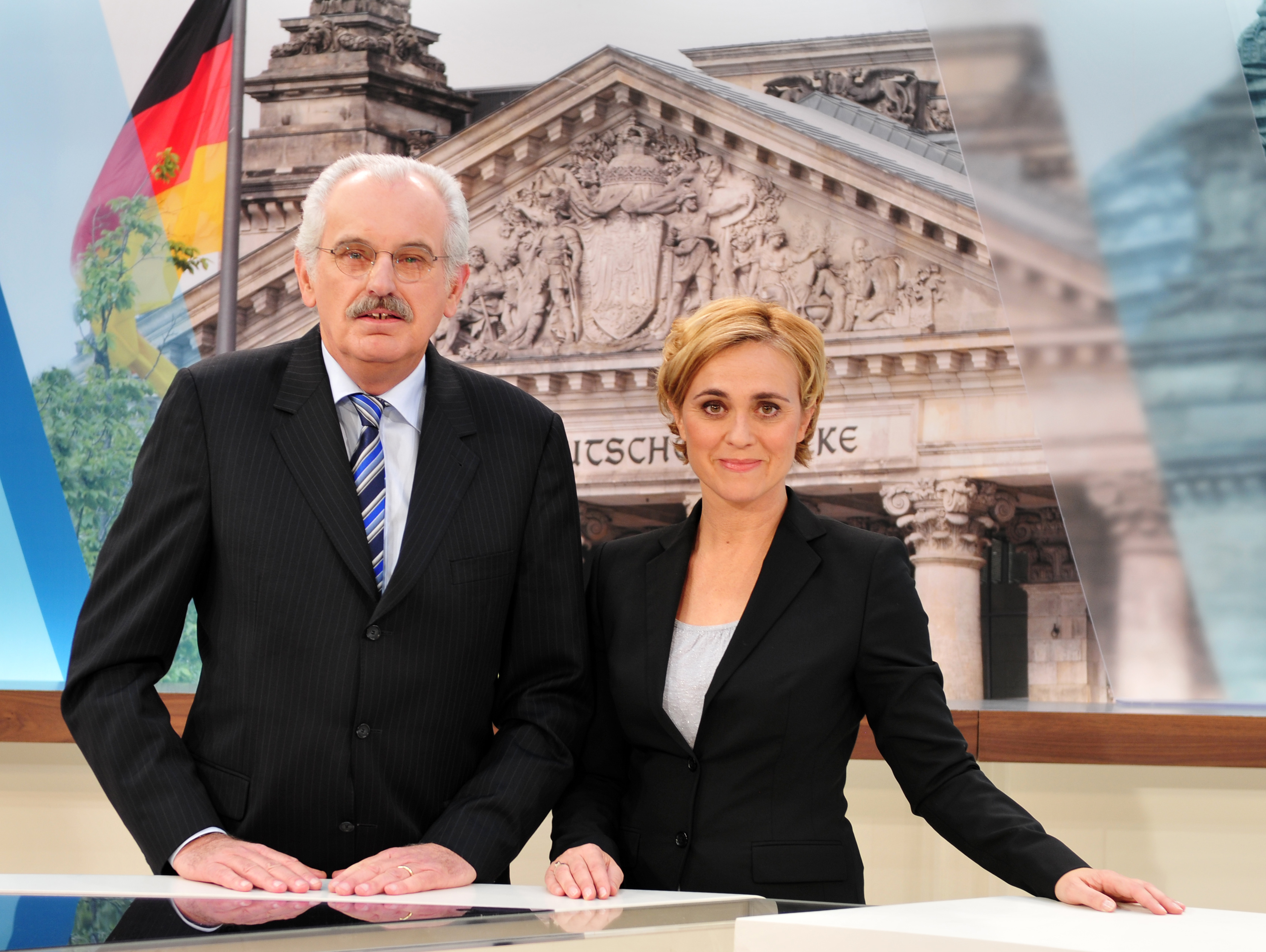 German Journalists Ulrich Deppendorf and Caren Miosga